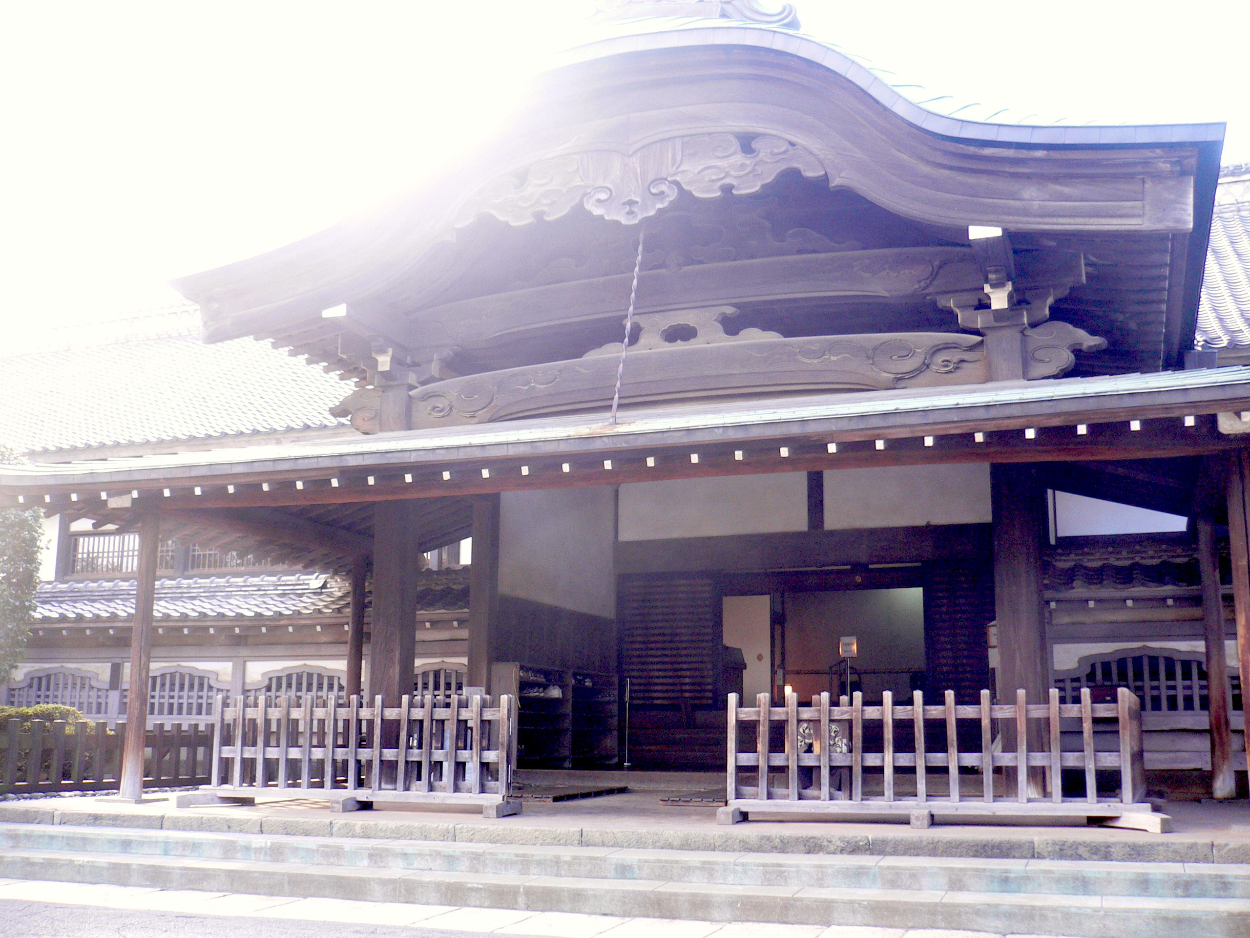 Kawagoe castle-Honmaru Goden (川越城), Kawagoe C, Saitama P.